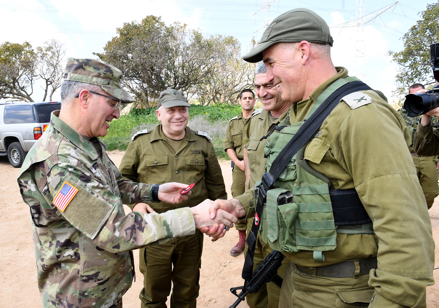 Commander of the U.S. European Command General (****) Curtis M. Scaparrotti continued his visit to Israel today, Tuesday, March 7, 2017, with a tour of the Arrow Missile Defense System headquarters in Palmahim, accompanied by IDF Chief of Staff Lt. Gen. Gadi Eizenkot and Air Defense Commander Brig. Gen. Zvika Haimovitch. He then continued to an IDF field exercise and was briefed by Brig. Gen Ori Gordin and Maj. Gen (res.) Tal Russo. He then traveled south to Israel’s border with the Gaza Strip and visited a captured Hamas tunnel, accompanied by Gaza Division Commander Brig. Gen Yehuda Fox.